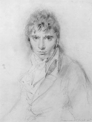 Portrait of Richard Westall (1765–1836).